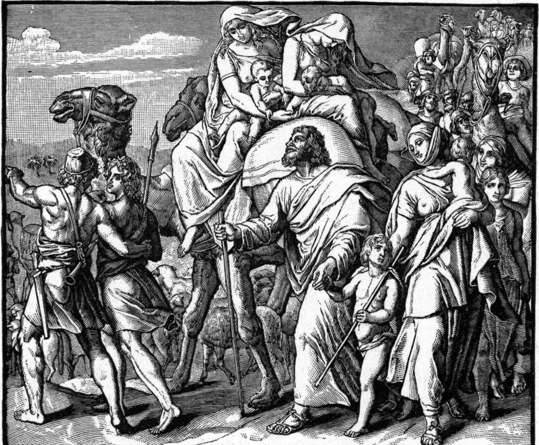 Jacob Flees Laban; caption: "Rachel is riding on a camel. Jacob is walking by her side. Jacob's little children are coming too. He has left Laban's house where he has lived so long. He is going back to his father's house. It is many years since he has seen his father. Now he wants to go and see him before his father dies. Jacob has sheep, and camels, and goats of his own. He is taking these with him. It is a long way to the land where his father lives. But God will take care of Jacob and bring him safely there." Illustration from the 1897 Bible Pictures and What They Teach Us: Containing 400 Illustrations from the Old and New Testaments: With brief descriptions by Charles Foster